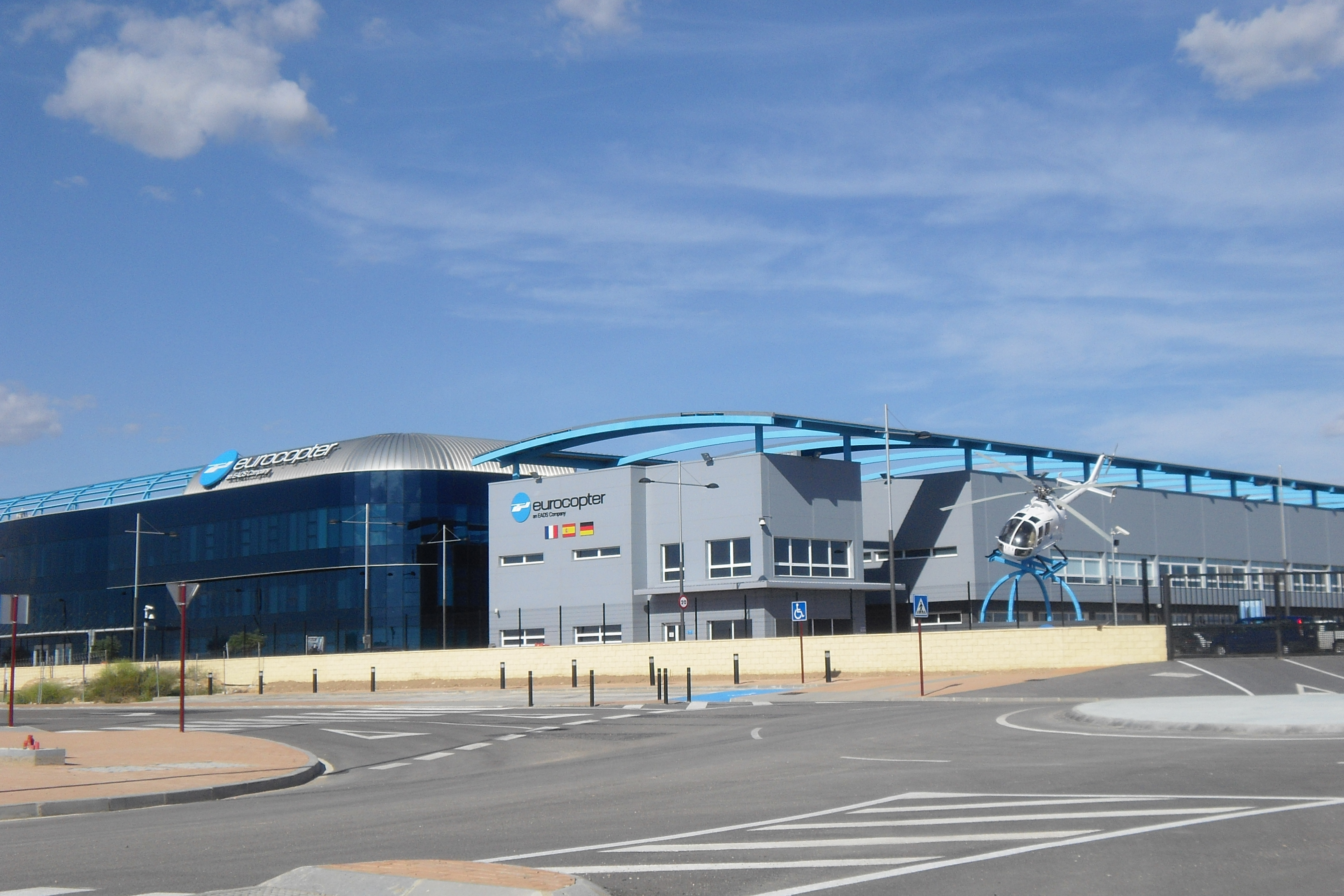 Eurocopter factory in Albacete aviation and logistics park